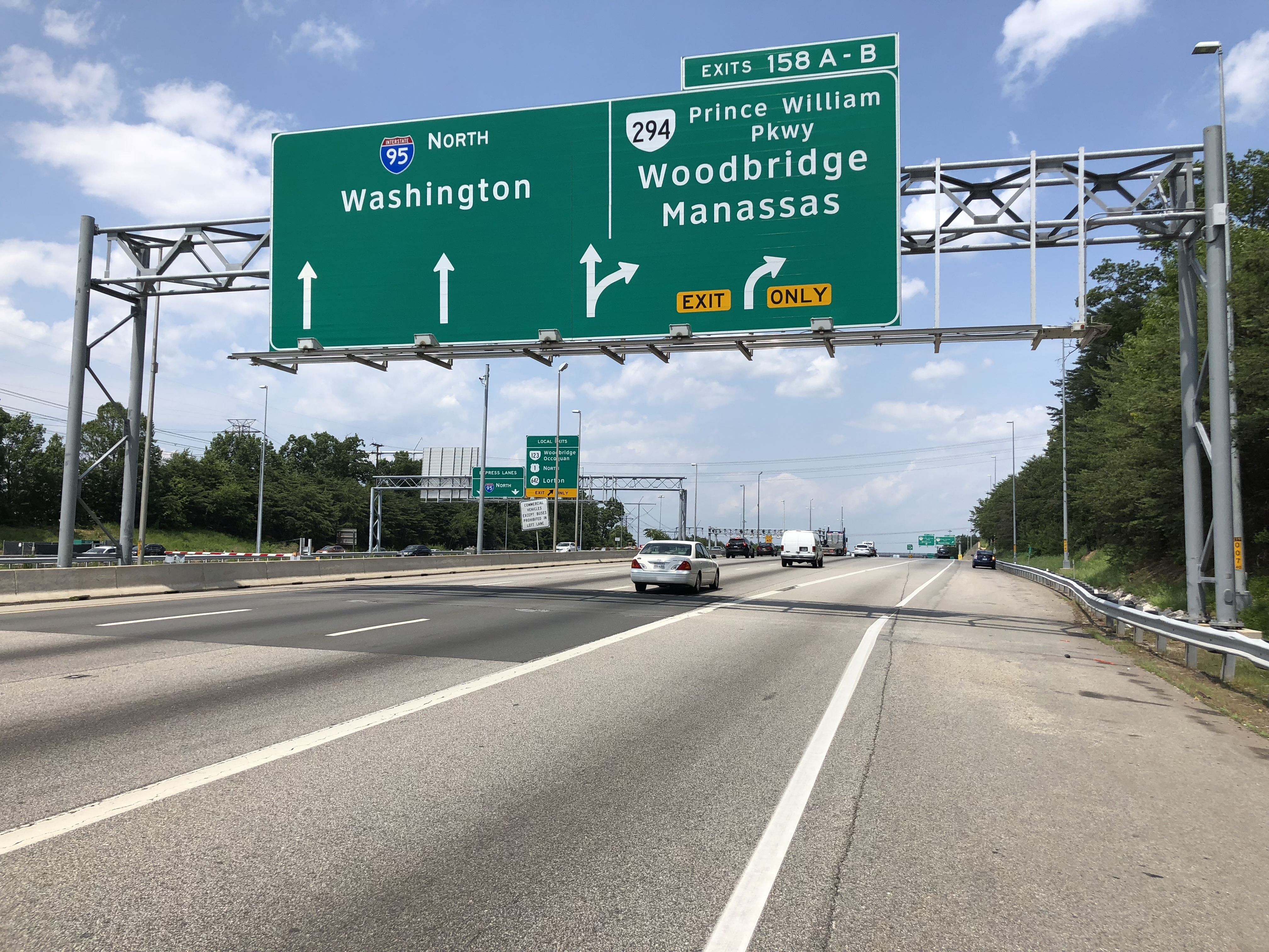 View north along Interstate 95 at Exit 158 (Virginia State Route 294/Prince William Parkway, Woodbridge, Manassas) on the edge of Potomac Mills and Marumsco in Prince William County, Virginia